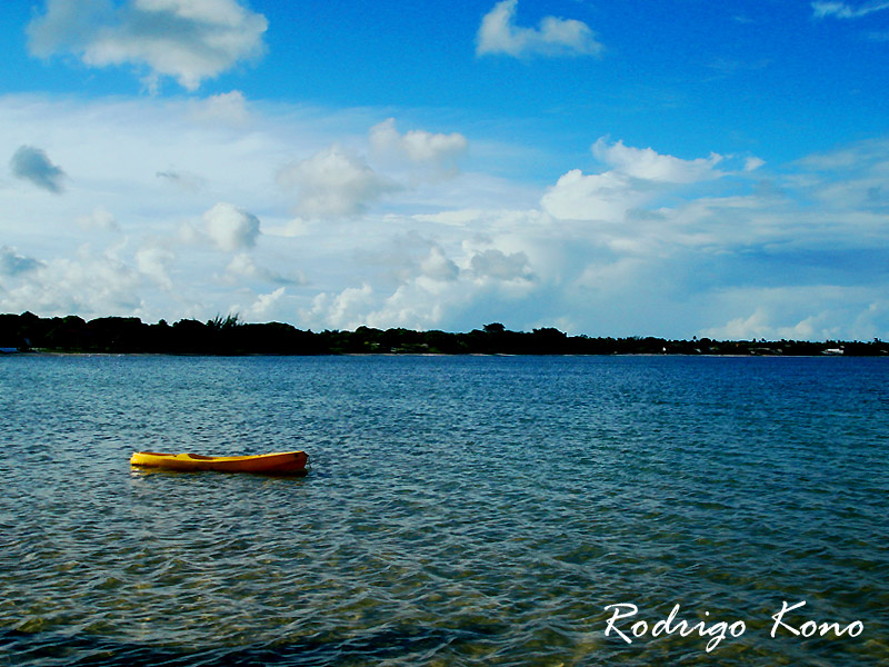 Carcará lagoon in Rio Grande do Norte, Brazil.